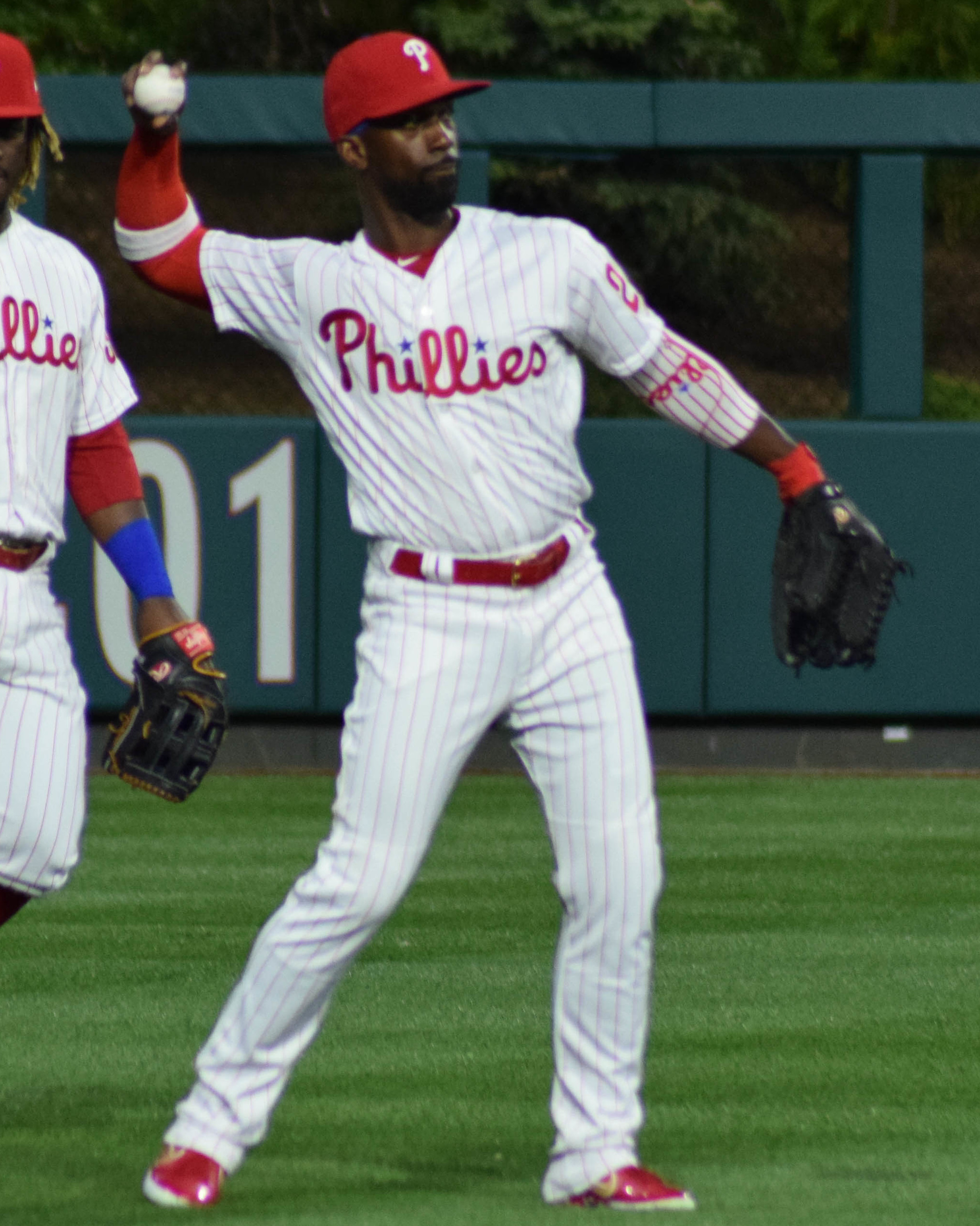 Andrew McCutchen with the Philadelphia Phillies during a 2019 game at Citizens Bank Park in Phialdelphia